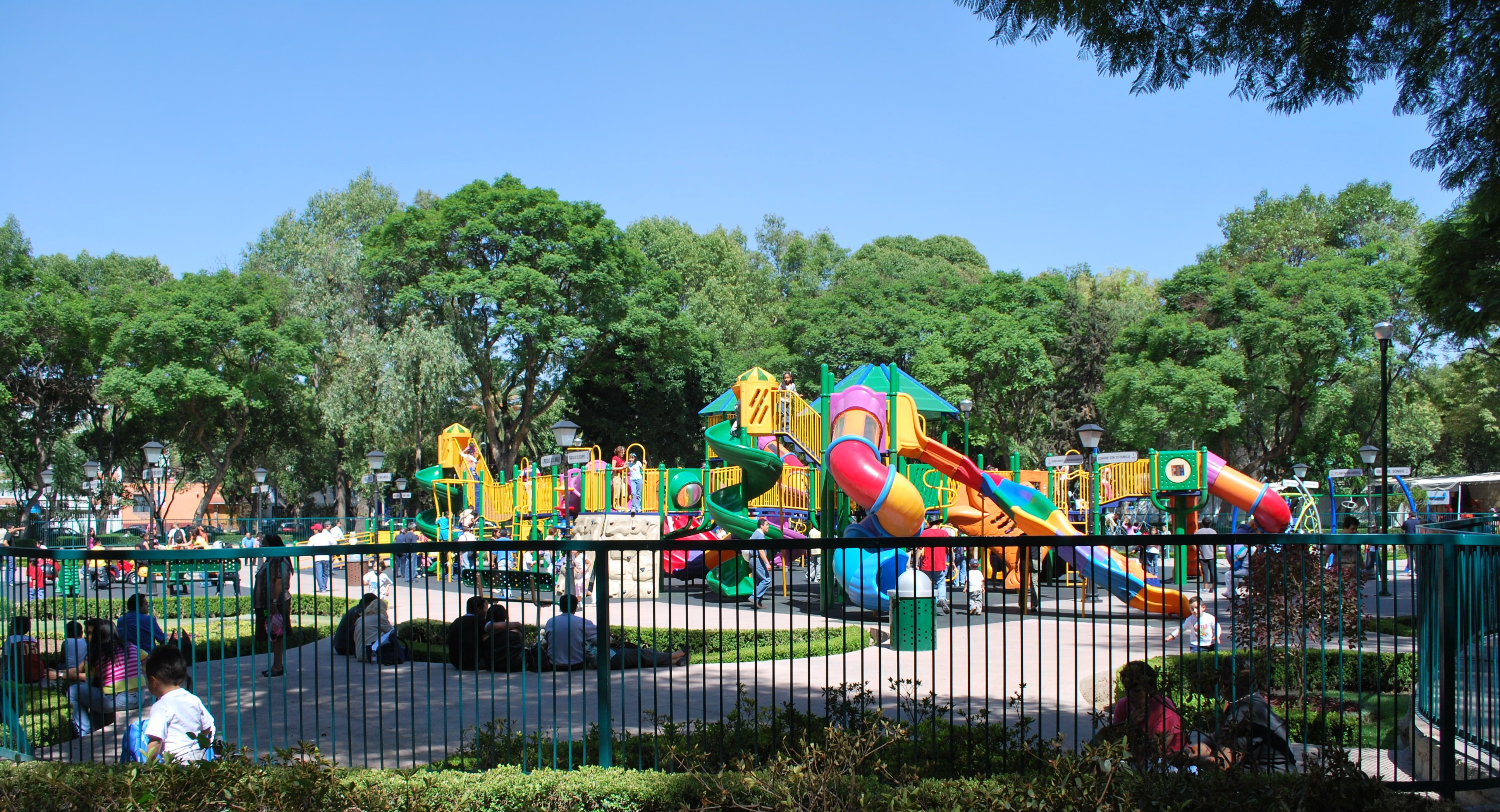 Playground at Los Venados Park in Benito Juarez borough Mexico City